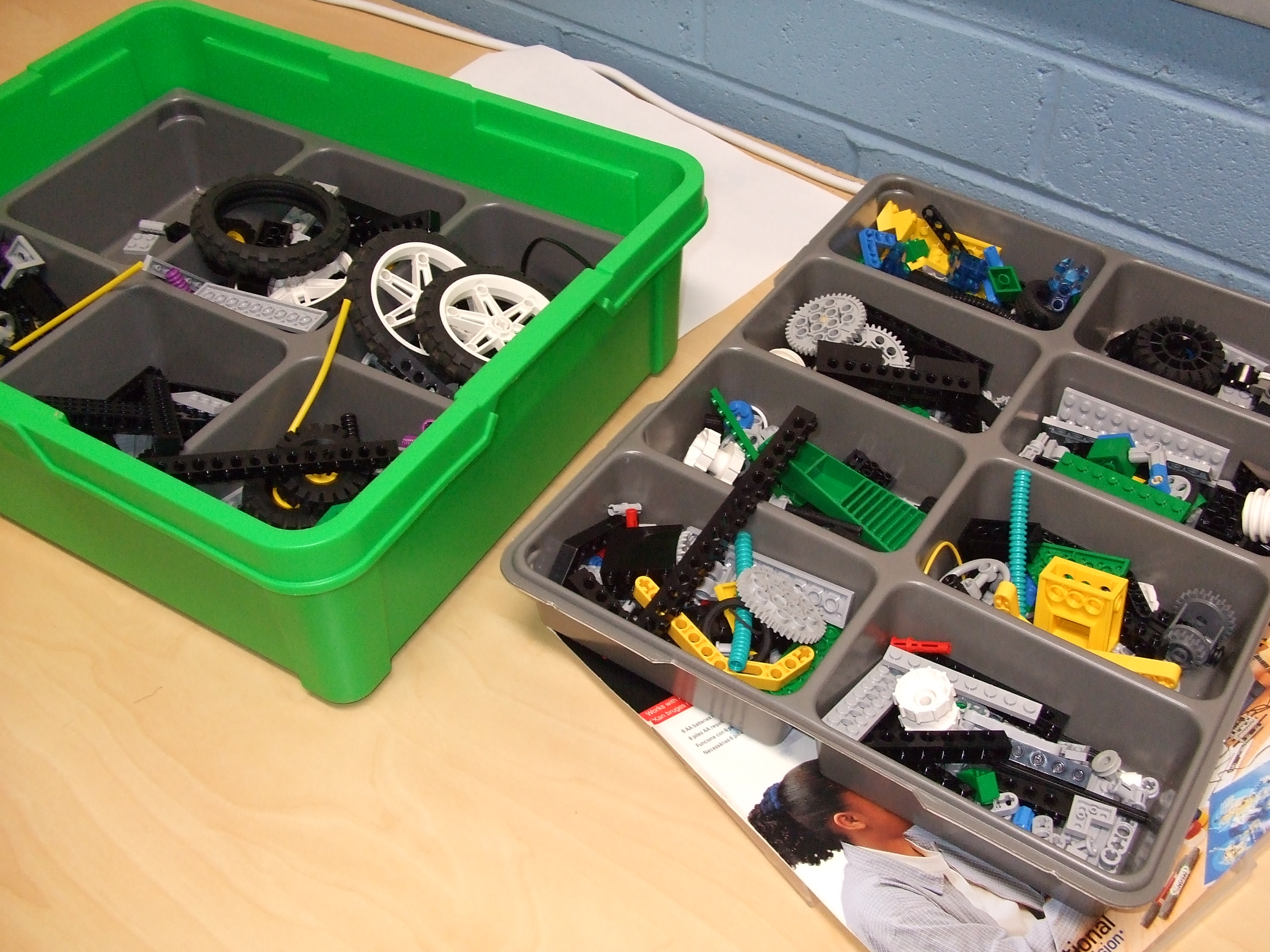 A picture of a Kit of Lego Robotics.